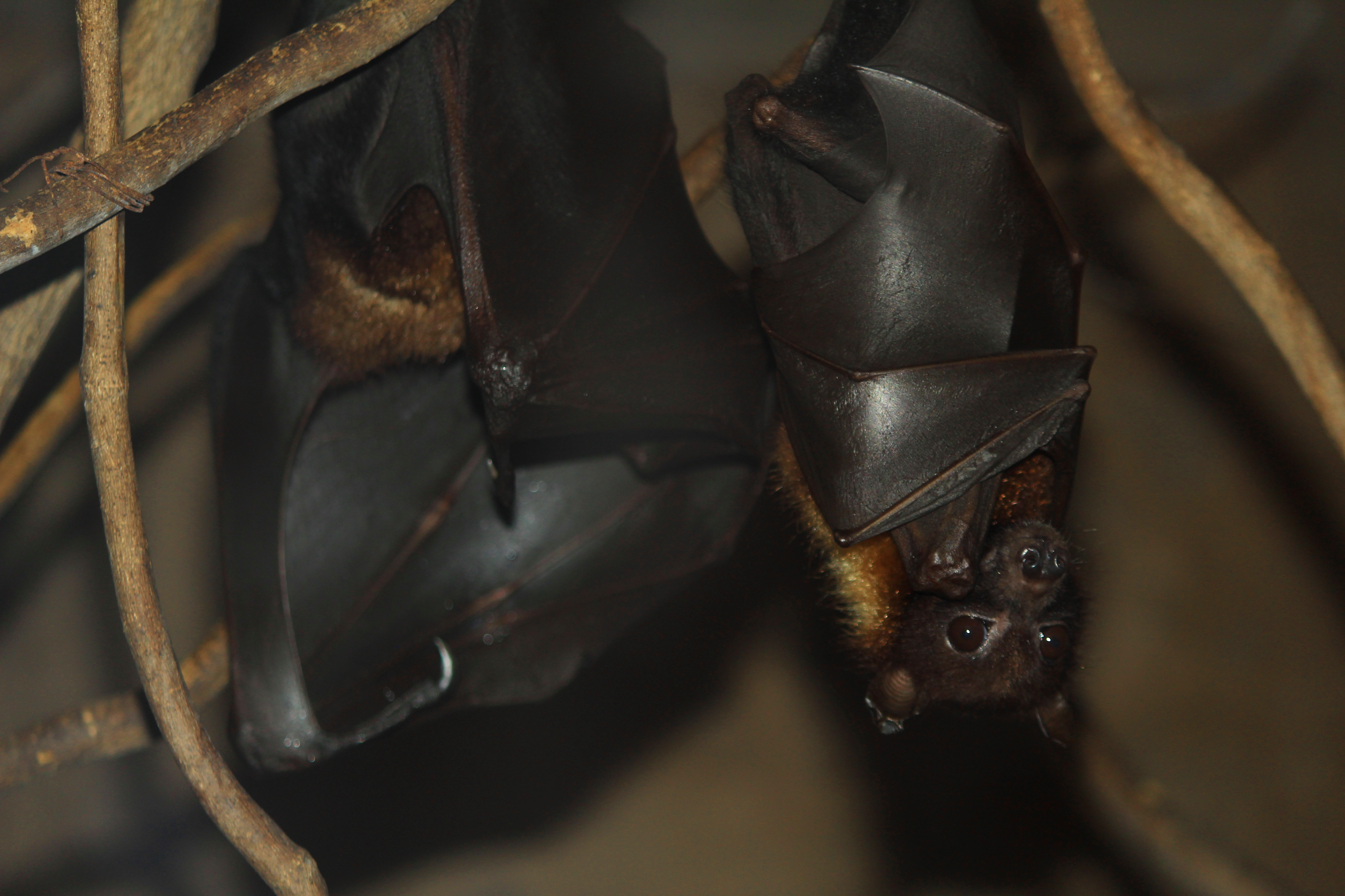 Flying fox Scientific name: Pteropus sp. ChattBir Zoo Zirakpur Mohali Punjab